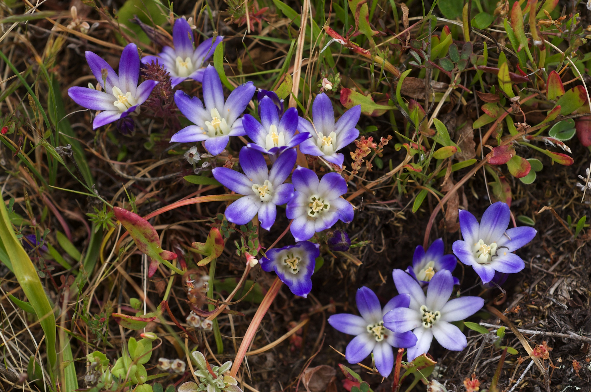 Brodiaea terrestris ssp. terrestris — Dwarf Brodiaea. Photographed along the trail leading south from Stump Beach Cove, Salt Point State Park, Sonoma County, California. Species from California and Oregon